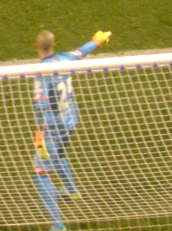 Rubén, goalkeeper.